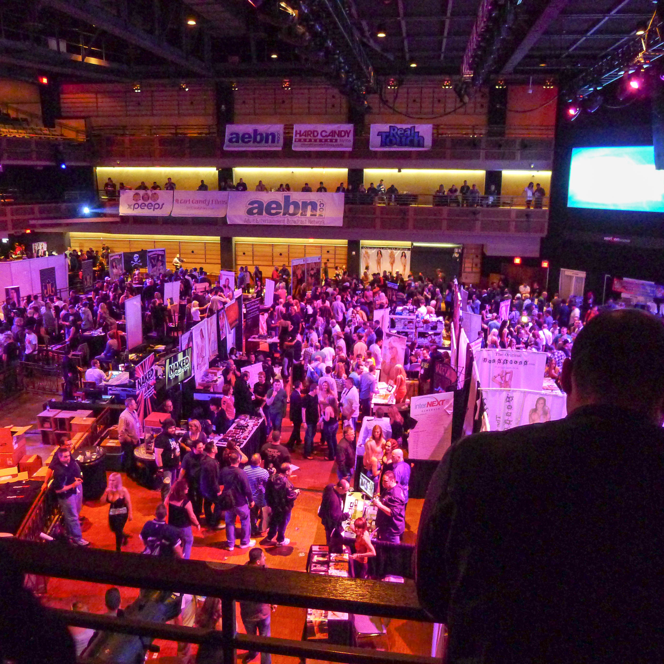 Show floor at AVN